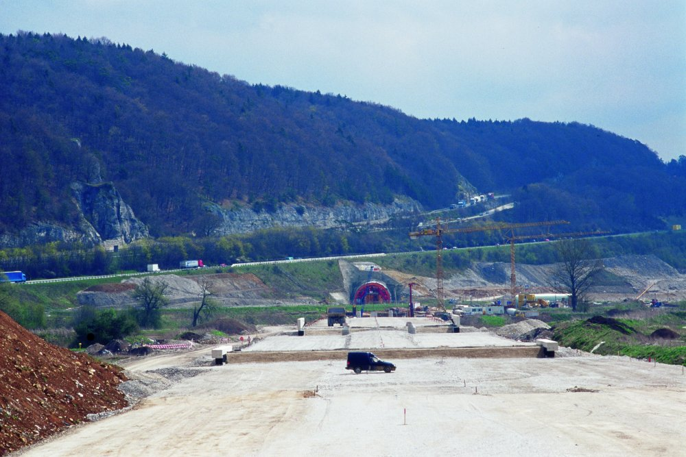 The area of the railway station of Kinding, during construction, in southern direction of view. The north entrance to the Irlahüll Tunnel can be seen in the background, as well as the Autobahn A9 that crosses that high-speed line not far away from the north portal.